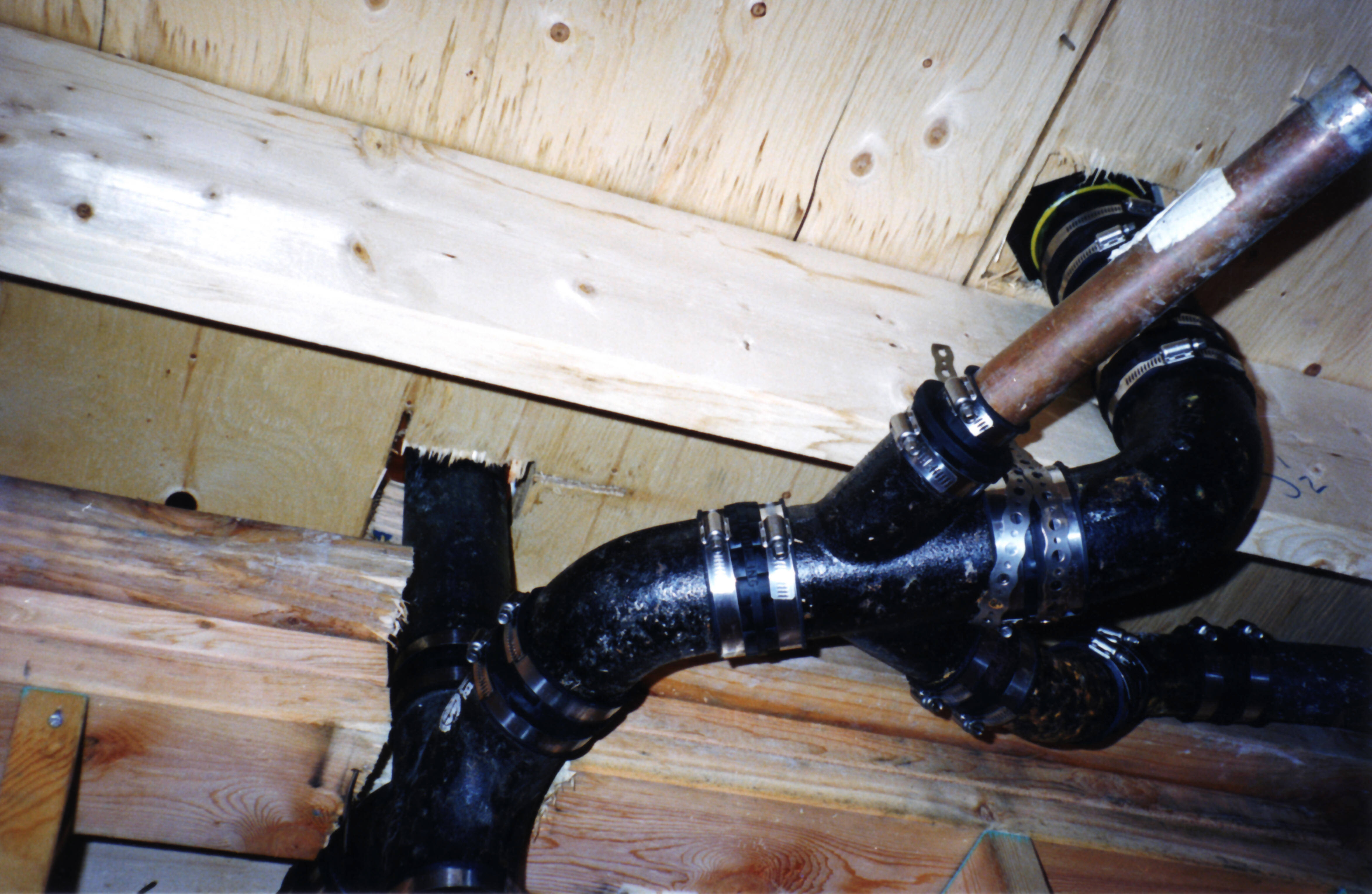 Cast Iron and copper DWV (Drain, Waste and Vent) Piping in a Timber Residential Building in Mission, British Columbia, Canada in the 1980s.